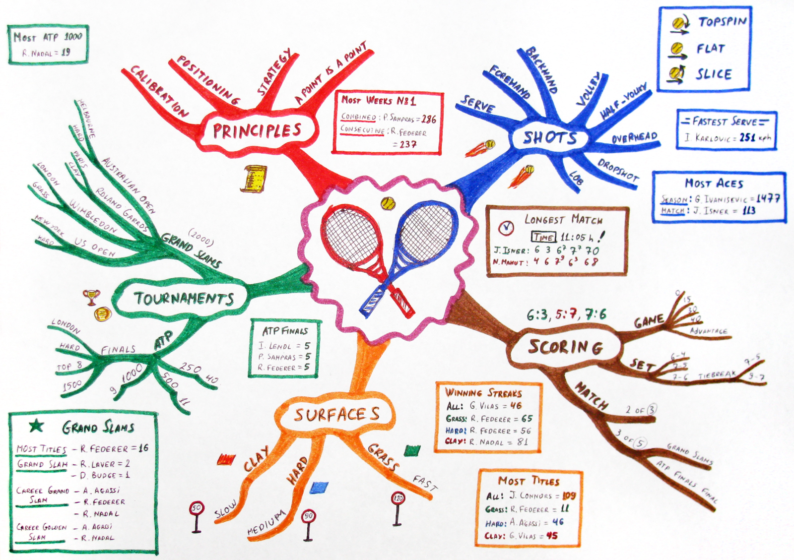 Tennis mind map